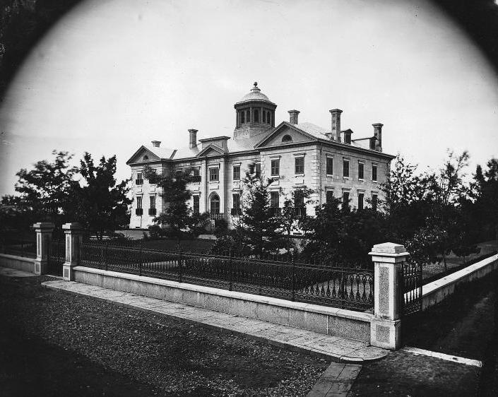 Photograph, Honourable Mr. Masson's house, Terrebonne, QC, 1865, William Notman (1826-1891), Silver salts on glass - Wet collodion process - 20 x 25 cm